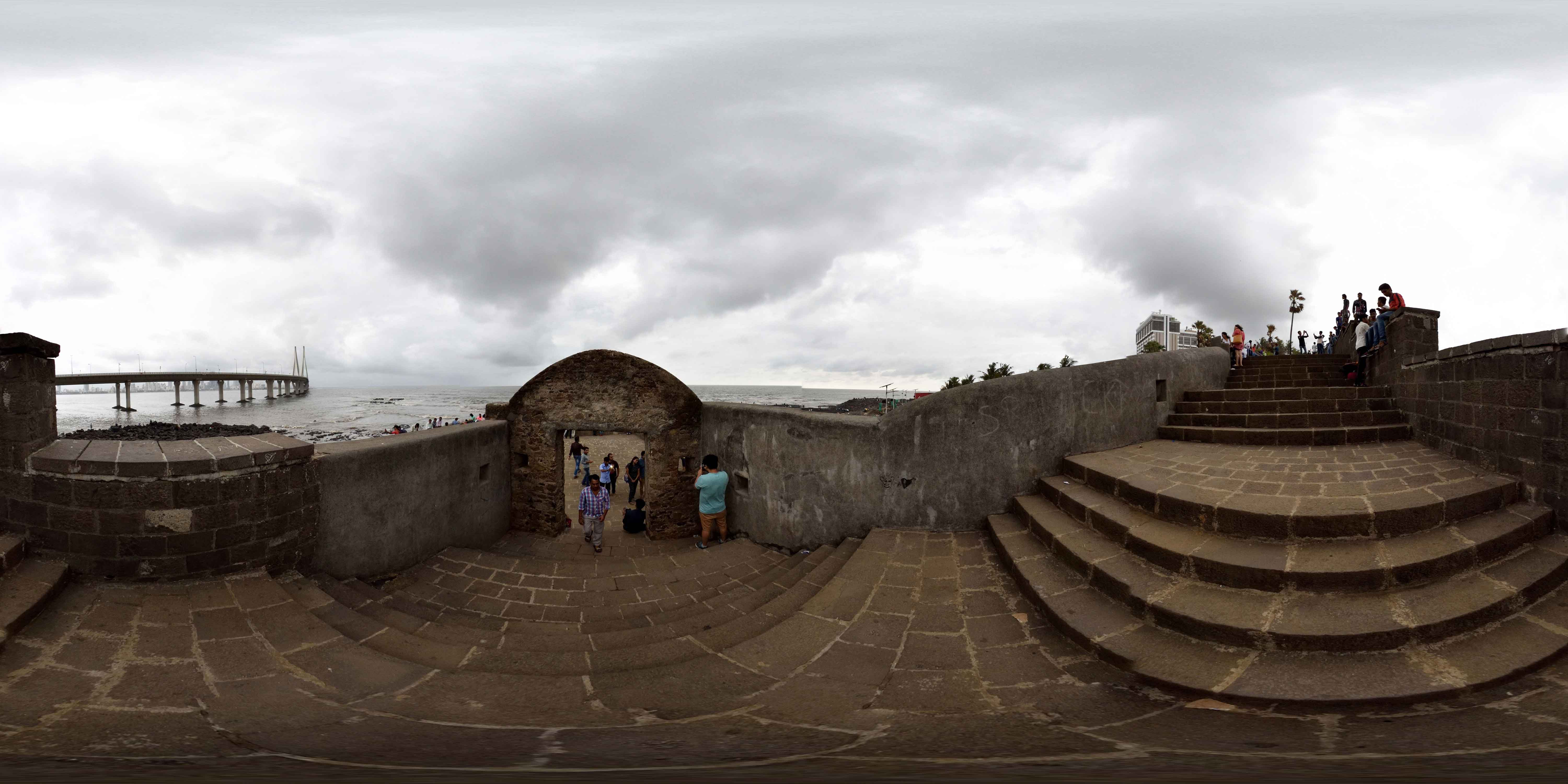 This article is about the fort in Bandra, Mumbai. For the fort in Goa, see Fort Aguada. Castella de Aguada बांद्रा किल्ला Castella de Aguada 7.jpg Bandra Fort Castella de Aguada is located in Mumbai Castella de Aguada Location within Mumbai General information Type Fort Location Bandra, Mumbai Coordinates 19.041770°N 72.818580°E Elevation 13 m (43 ft) Completed 1640 Client Portuguese Owner Government of Maharashtra Castella de Aguada (Portuguese: Fort of the Waterpoint), also known as the Bandra Fort, is a fort located in Bandra, Mumbai. "Castella" is a misspelling for Portuguese "Castelo" (castle). Properly, it should be called Castelo da Aguada, although it seems its Portuguese builders actually called it Forte de Bandorá (or Bandra Fort). It is located at Land's End in Bandra. It was built by the Portuguese in 1640 as a watchtower overlooking Mahim Bay, the Arabian Sea and the southern island of Mahim.[1] The strategic value of the fort was enhanced in 1661 after the Portuguese ceded the seven islands of Bombay that lay to the immediate south of Bandra to the English. The name indicates its origin as a place where fresh water was available in the form of a fountain ("Aguada") for Portuguese ships cruising the coasts in the initial period of Portuguese presence. The fort lies over several levels, from sea level to an altitude of 24 metres (79 ft).[1] Photo by Ashesh Shah